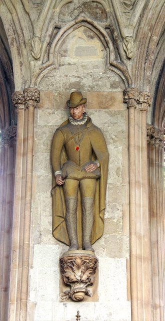 St Etheldreda, Ely Place, London EC1 - Nave statue Blessed Edward Jones